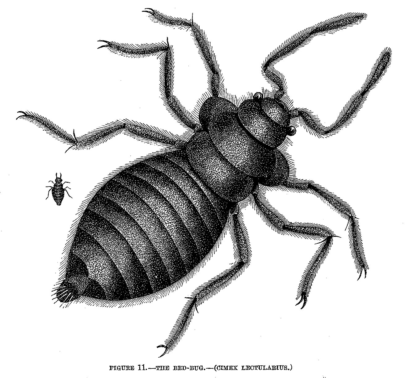 "Figure 11.—The Bed-Bug.—(Cimex lectularius.)"